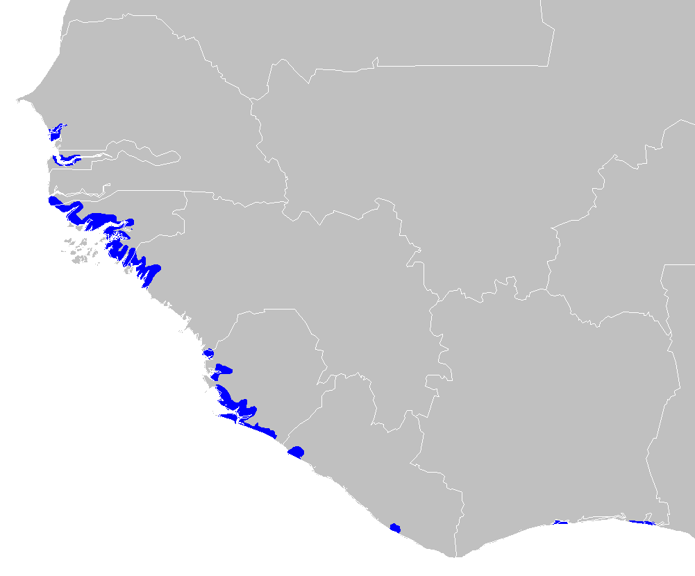 Mangrove terrestrial biome: The Guinean mangroves ecoregion map.